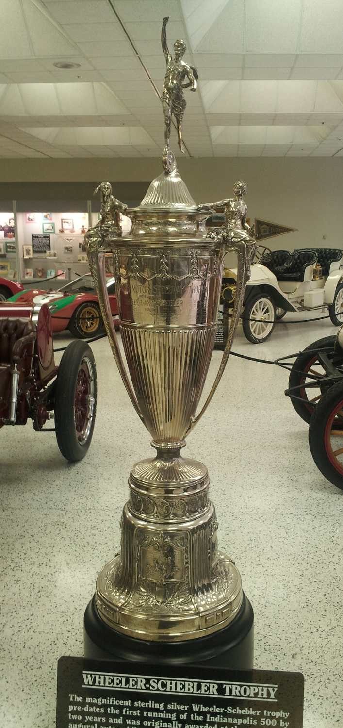 The Wheeler-Schebler Tropy at the Indianapolis Motor Speedway Museum.